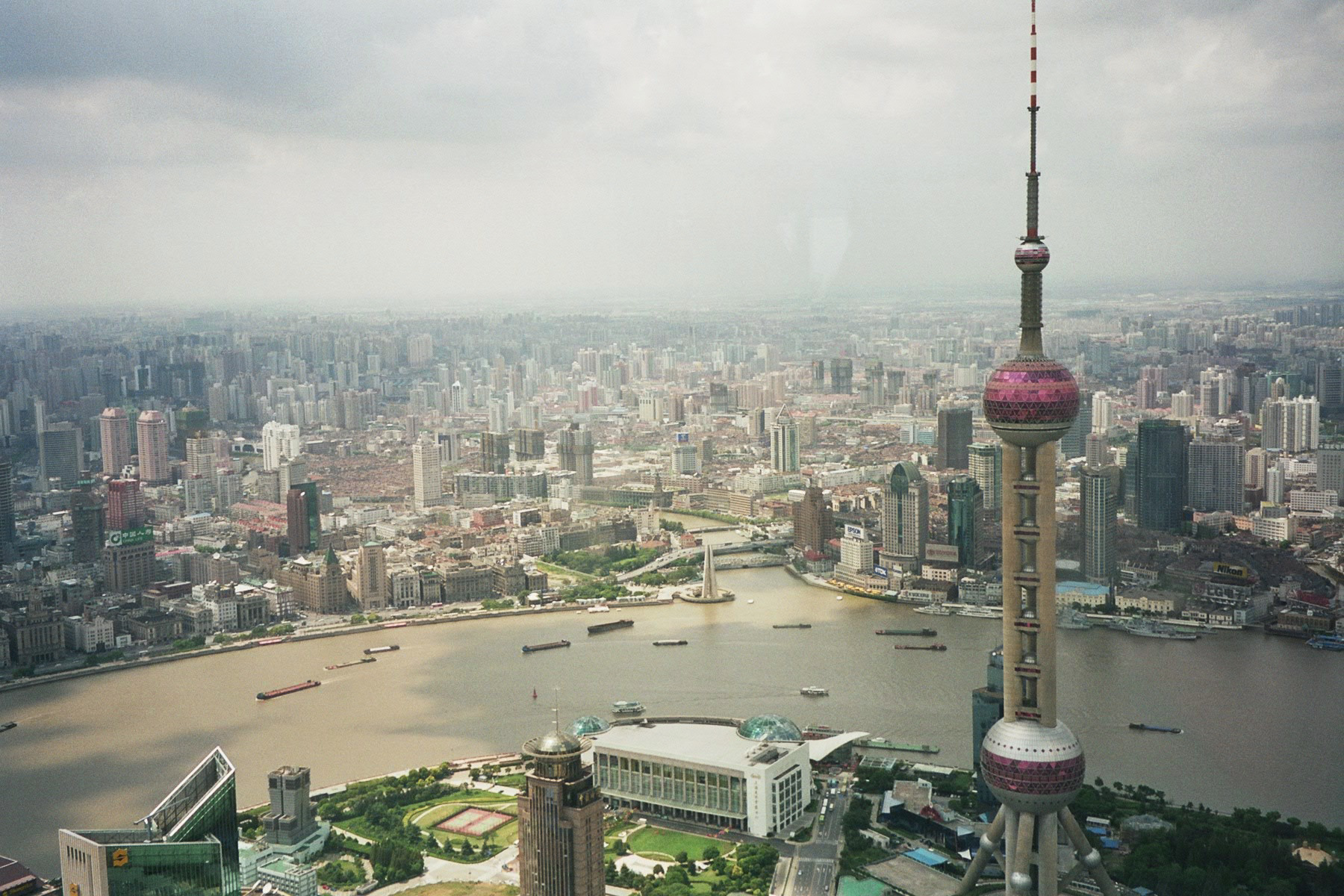 View from Jin-Mao-Tower in Shanghai, September 2006.